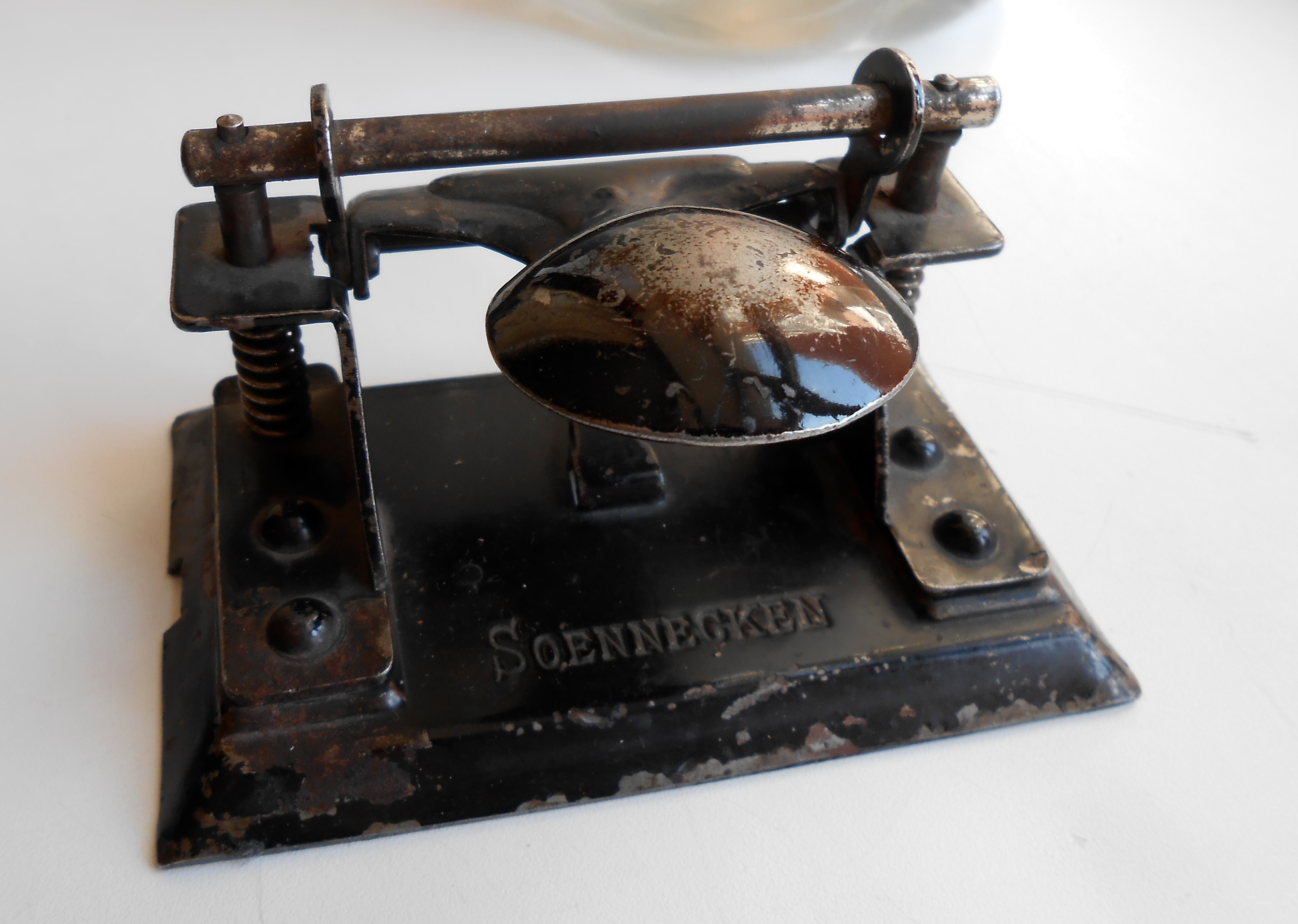 This punch was kept in our family since the early 20th century. Now I've learned on Wikipedia who his maker. In this article there are no pictures of the products Soennecken and I decided to fill this gap.